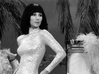 Photo of Cher from the television program The Sonny and Cher Show